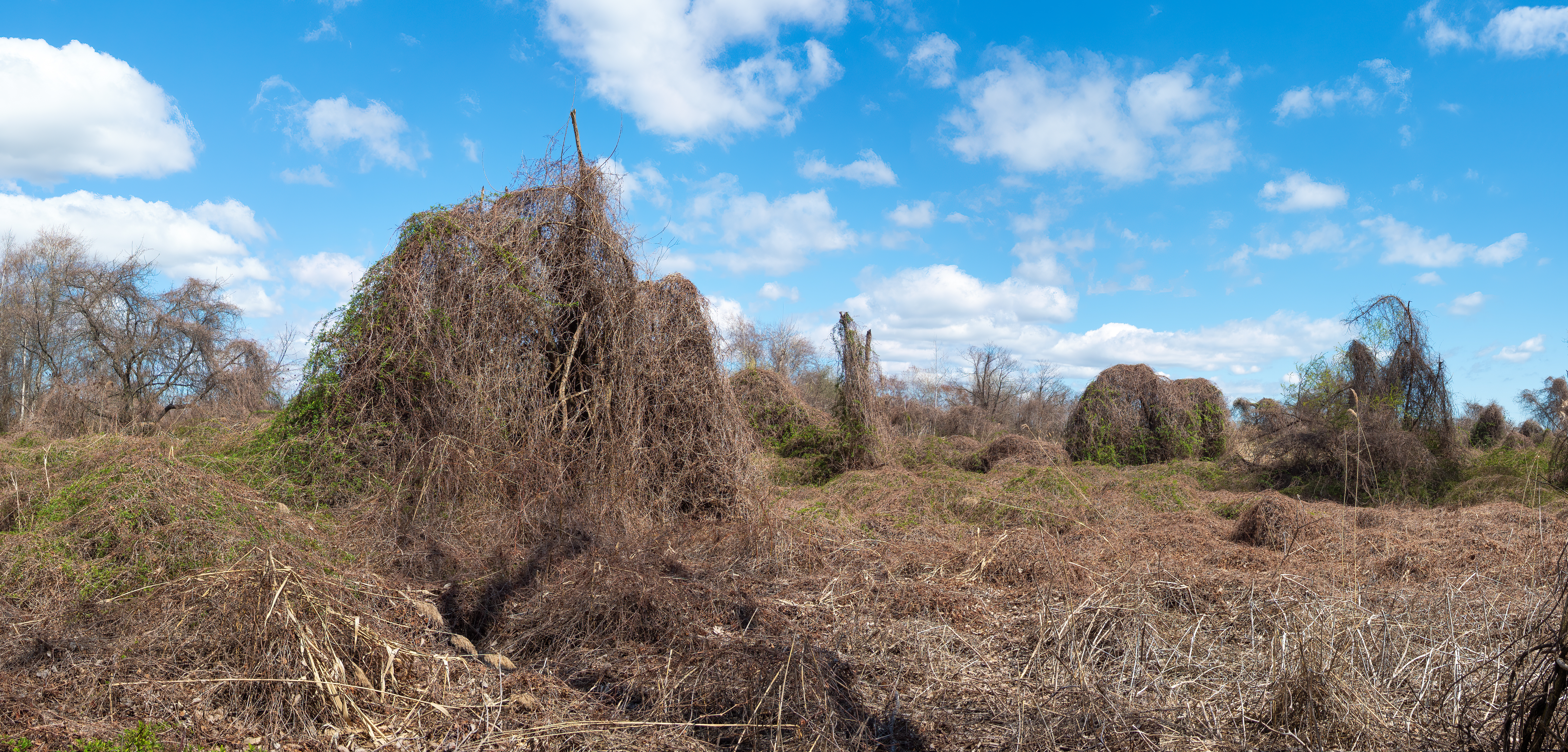 Trees and other plants covered in kudzu in Floyd Bennett Field